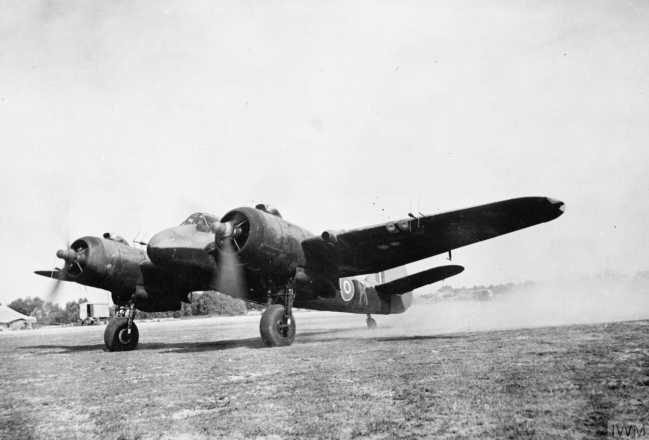 Air Ministry Second World War Official Collection Copy negative of CH 15213